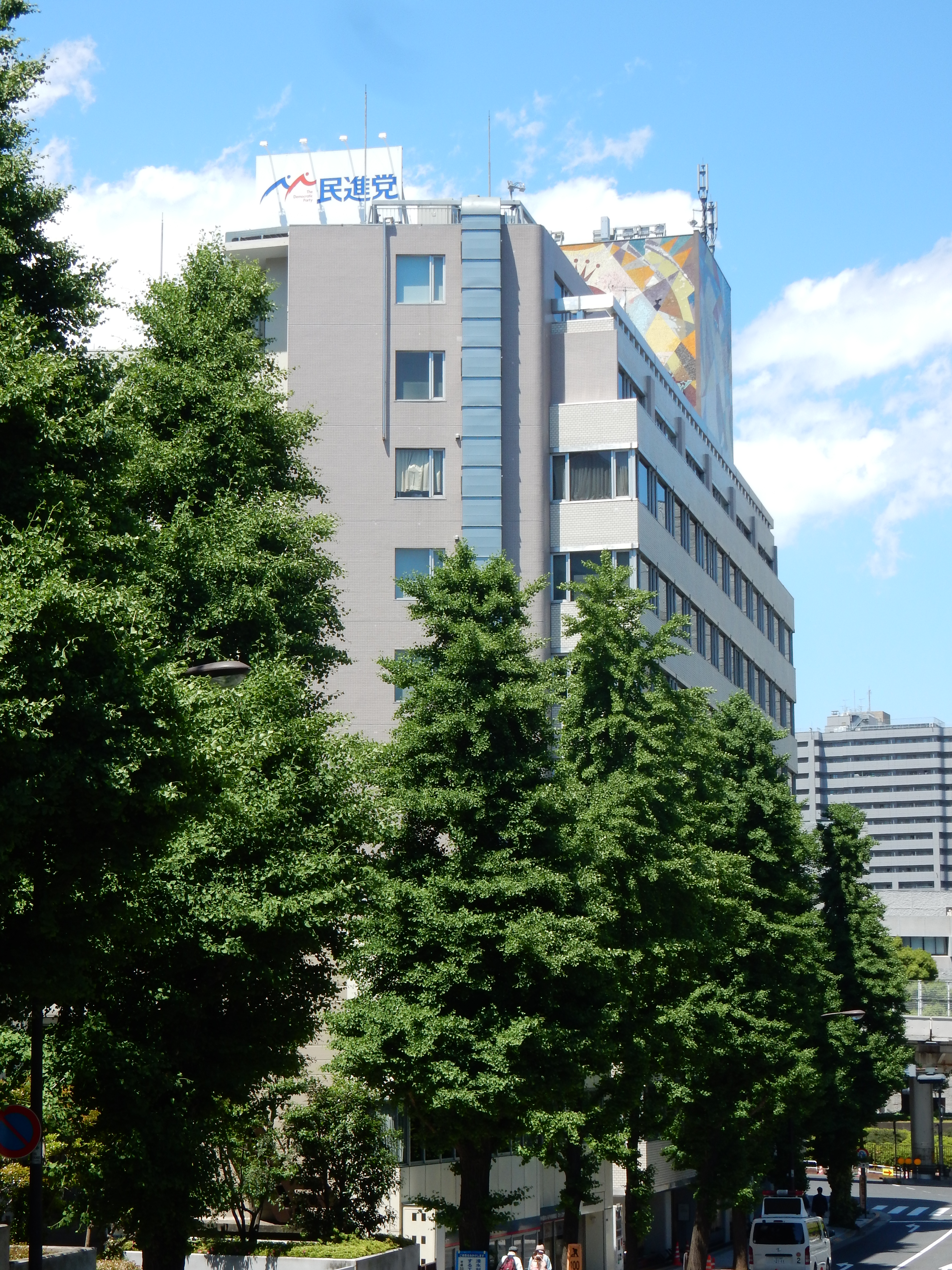 Miyakezaka Building (三宅坂ビル), located at 1-11-1 Nagatacho, Chiyoda, Tokyo, Japan